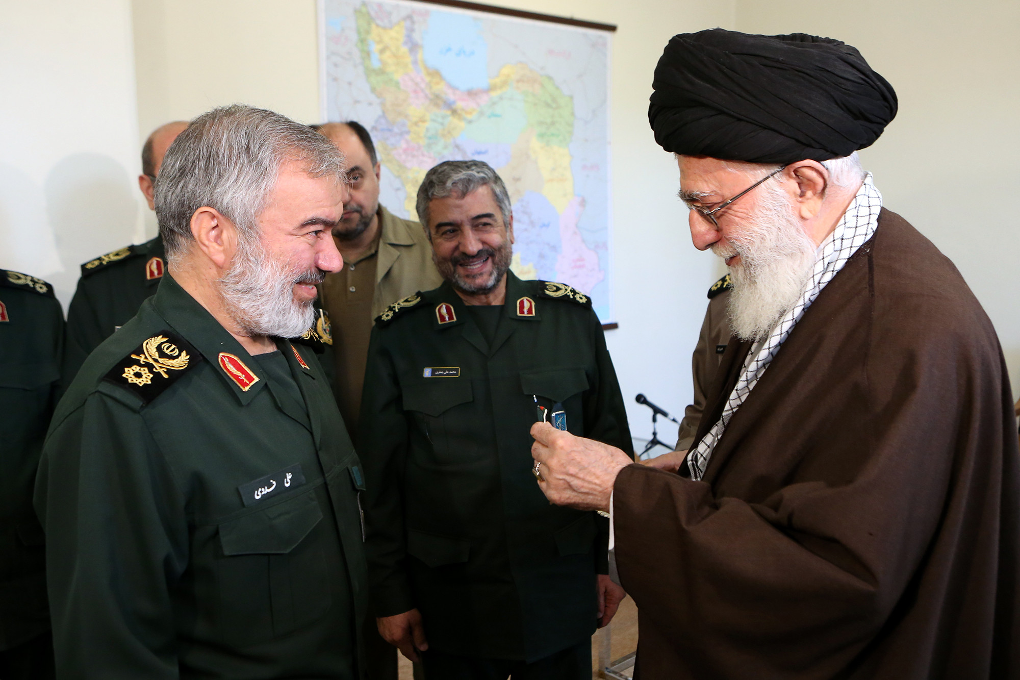 اعطای «نشان فتح» توسط آیت‌الله سید علی خامنه‌ای رهبر جمهوری اسلامی ایران به سردار فدوی فرمانده نیروی دریایی سپاه پاسداران انقلاب اسلامی و چهار تن از فرماندهان این نیرو که در جریان توقیف شناورهای آمریکایی و بازداشت تفنگ‌داران آمریکایی در محدوده‌ی جزیره‌ی فارسی به مرزهای آبی ایران تجاوز کردند، اقدام کرده بودند